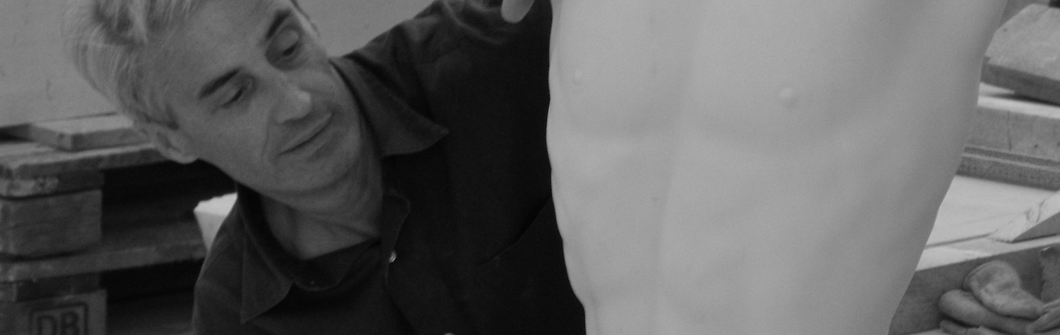 Photo of the artist Blake with male torso in white carrara marble